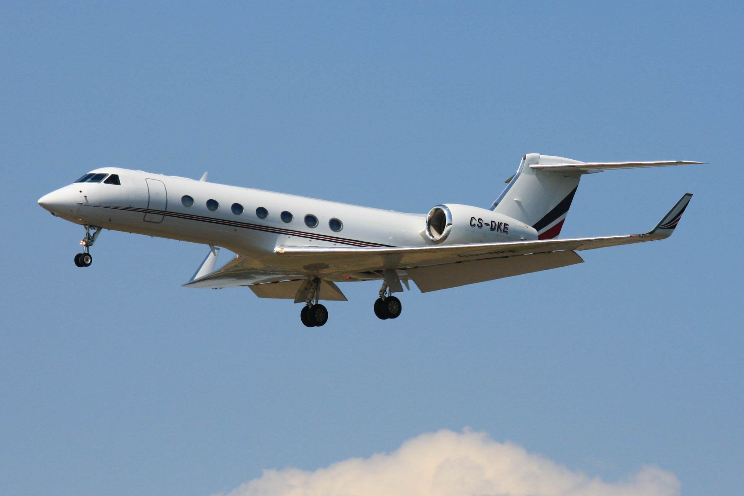 A Gulfstream G550 of NetJets landing at Frankfurt Airport